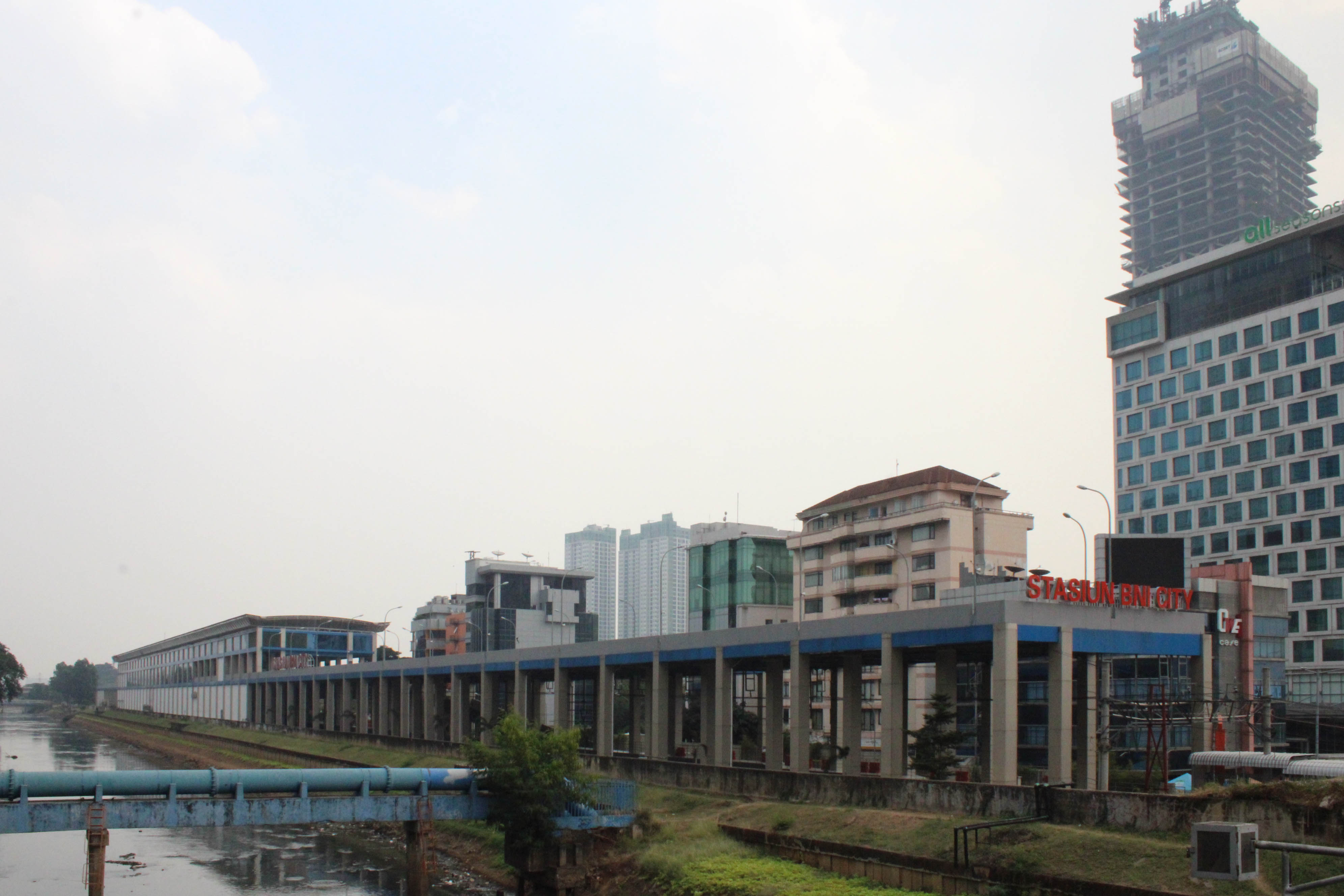 BNI City Station seen from the riverside.